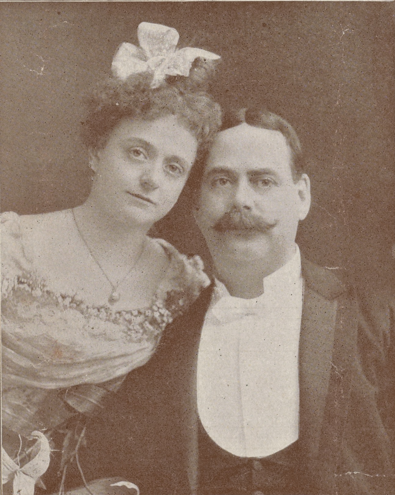 On cover: Sunflowers facing the rising sun. [illustration] On cover: Photograph of Libbey and Trayer. Statement of responsibility : words by Carrie W. Colburn and C. N. Schneider ; music by Wm. H. Penn.